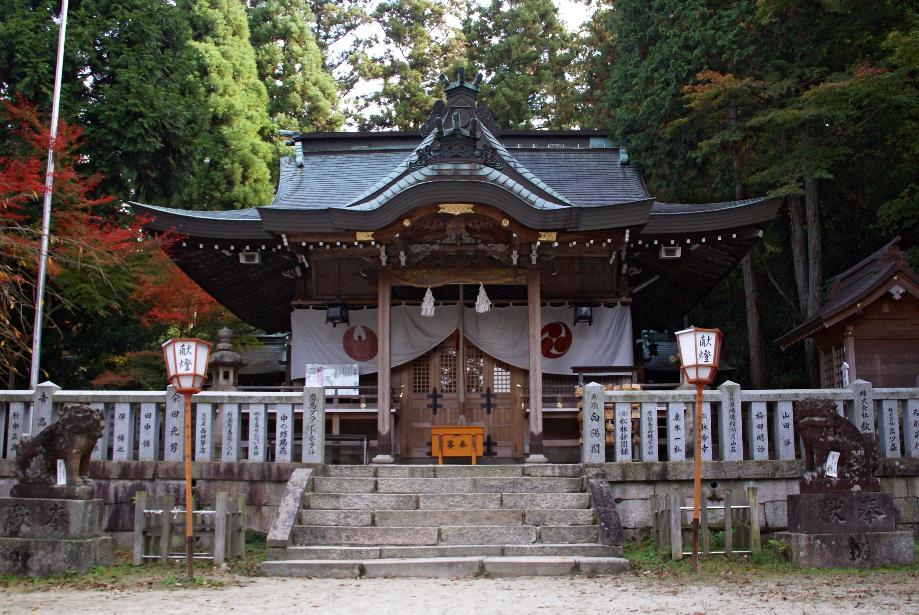 Tosen-jinja of Arima onsen in Kobe, Hyogo prefecture, Japan